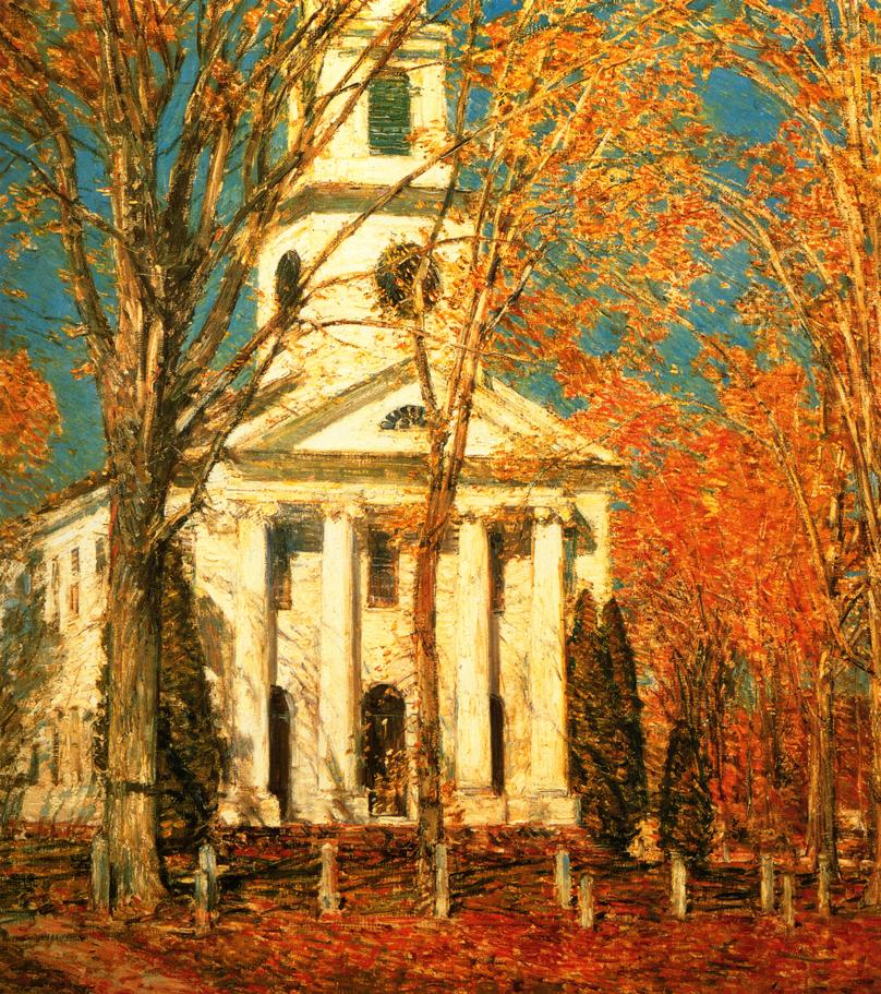 "Church at Old Lyme," oil on canvas, by the American painter Childe Hassam. Courtesy of the Albright-Knox Art Gallery.